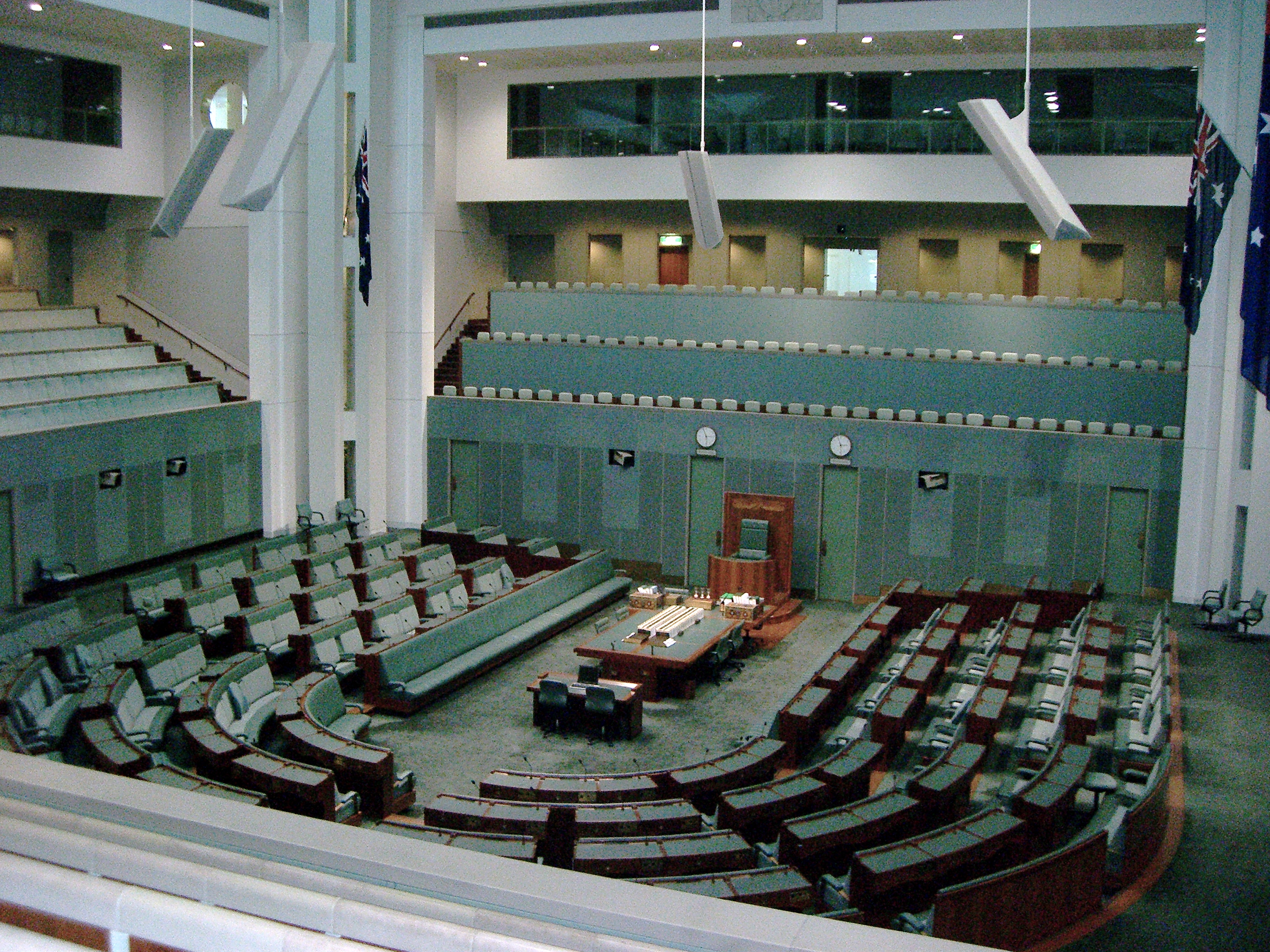 Australian House of Representatives Source